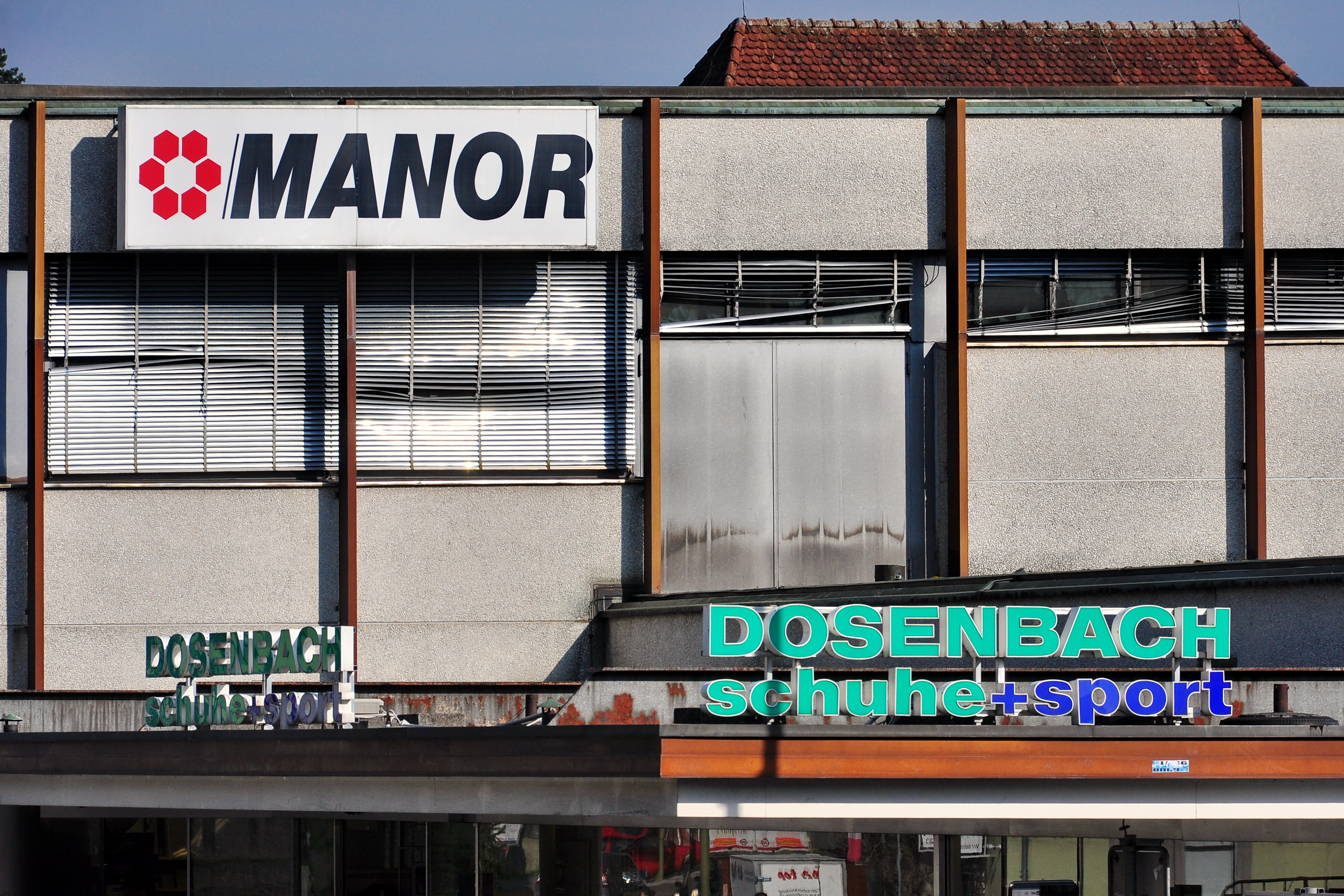 Former Keller-Ullmann building, as of today Manor shopping mall, at Dorfstrasse respectivley Bandwiesstrasse in Rüti (Switzerland) as seen from Reformierte Kirche